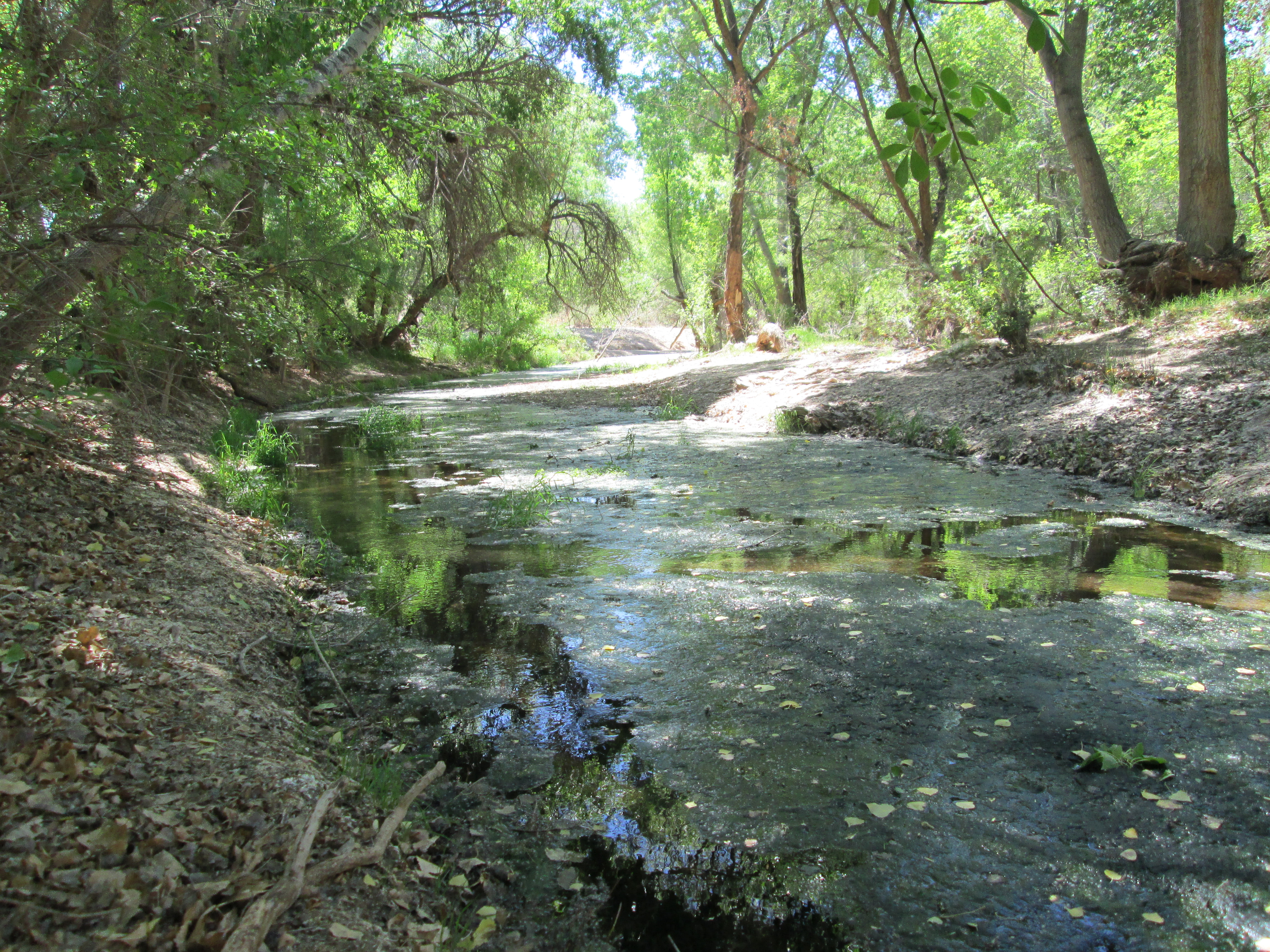 A murky section of Cienega Creek at the Cienega Creek Natural Preserve in eastern Pima County, Arizona.